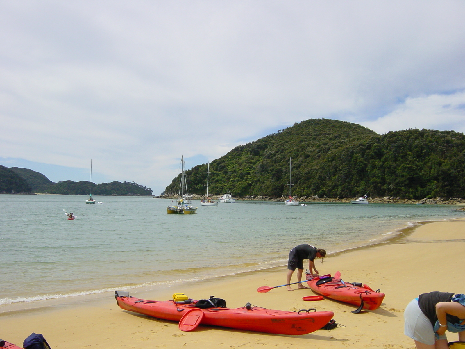 The Anchorage, Torrent Bay, Tasman Region, New Zealand